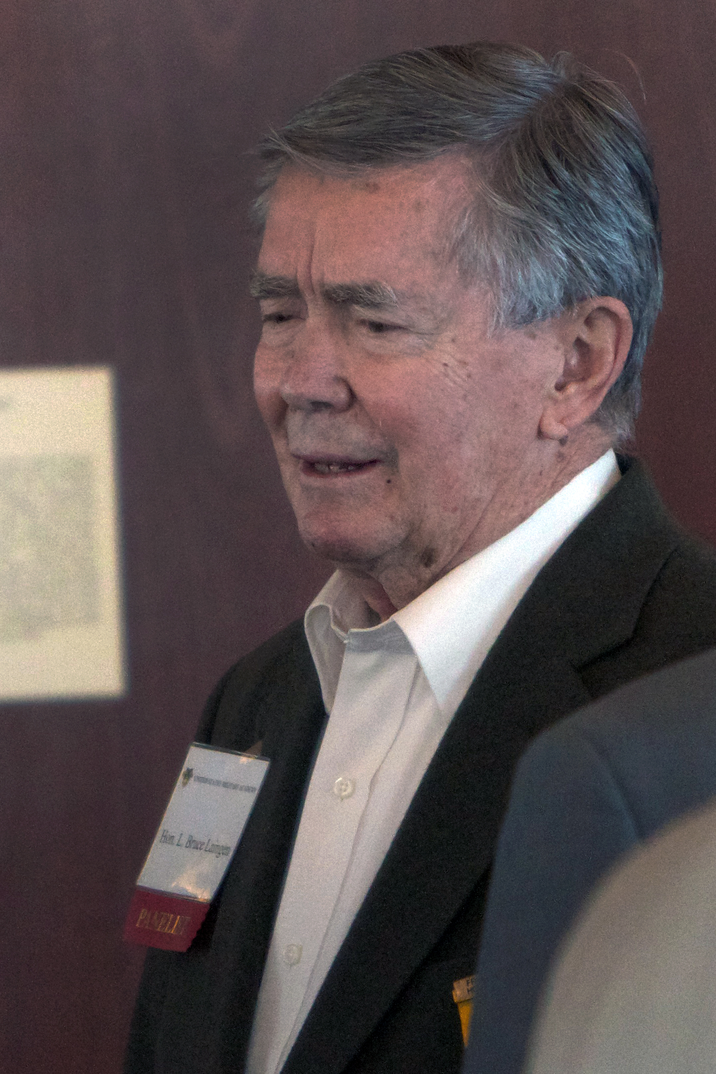 Bruce Laingen, former embassy Chargé d' Affaires, chats with other attendees at the 30th anniversary of the Iranian hostage crisis of 1979-1980 at the U.S. Military Academy at West Point, N.Y., Jan. 21, 2011.